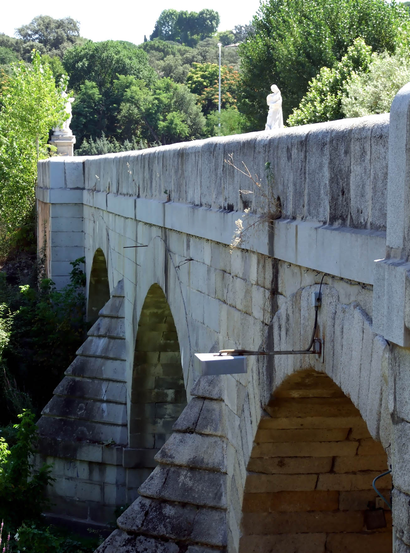 San Fernando bridge, crossing Manzanares river, in Madrid.